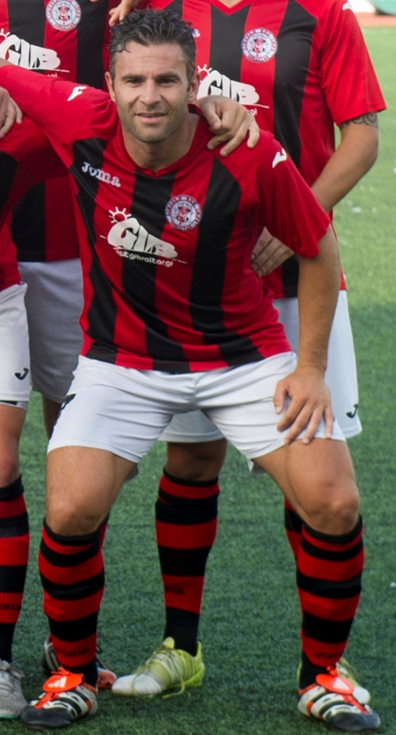 Lee Casciaro with Lincoln Red Imps before match with FC Midtjylland